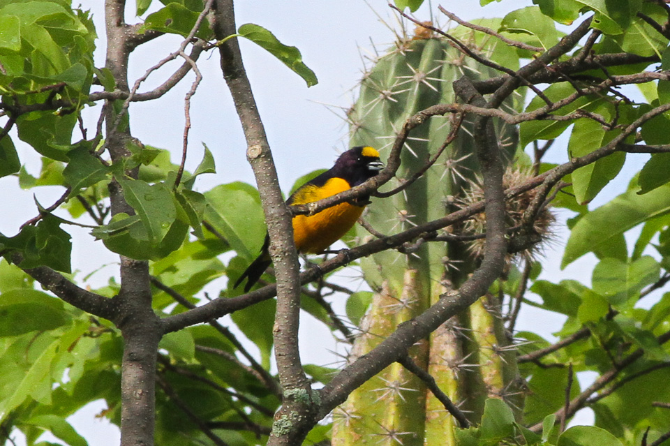 Velvet-fronted Euphonia (Euphonia concinna), Tatacoa Desert, Colombia